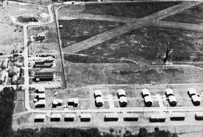 Cape Charles Air Force station, 1958 from the 1960 Washington Air Defense Sector yearbook